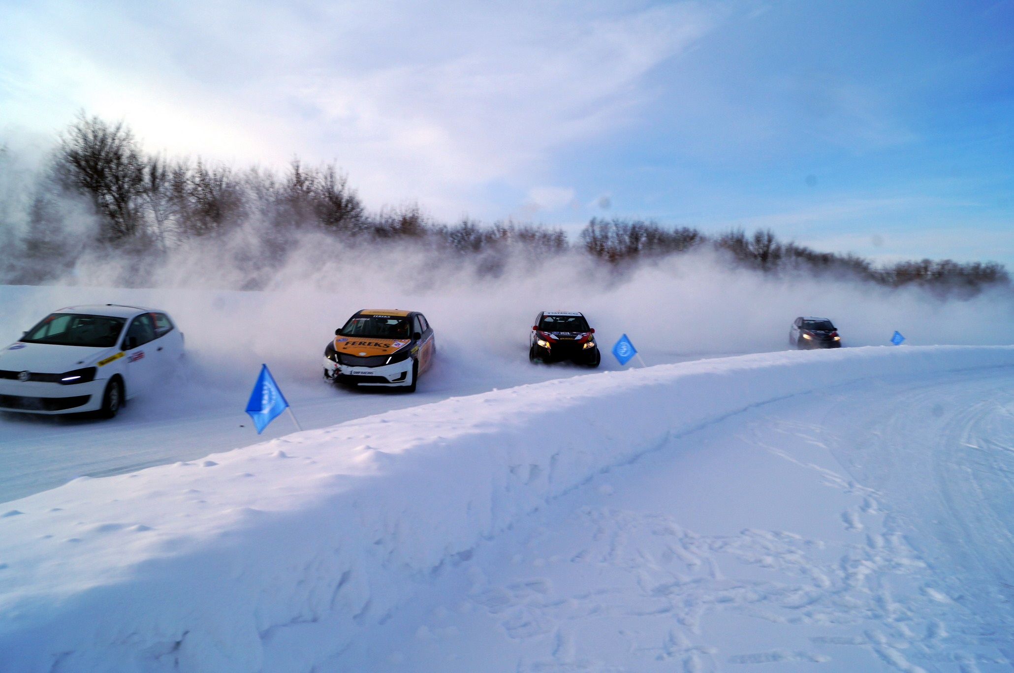 Russian Ice Racing Champ 2019 Usady